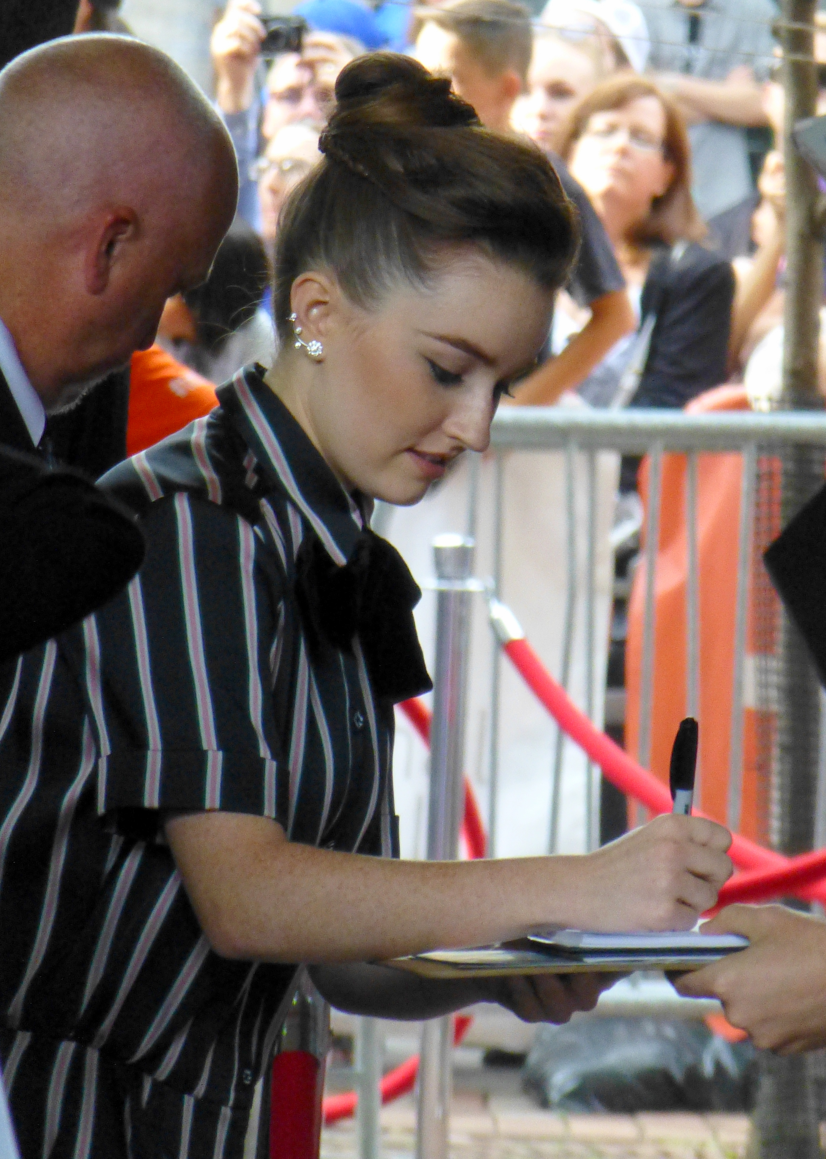 Kaitlyn Dever at the premiere of Men, Women, and Children, 2014 Toronto Film Festival